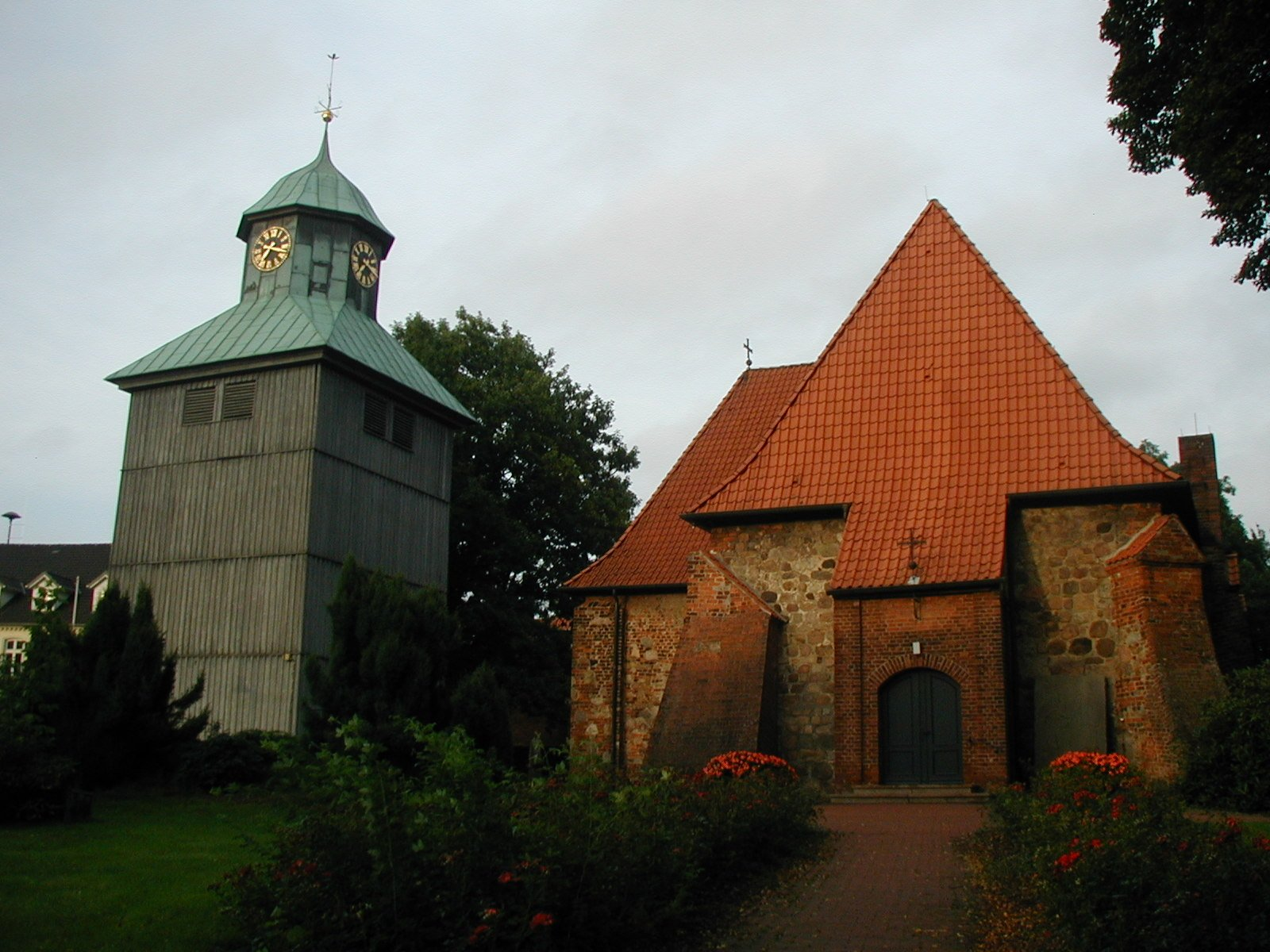 The Evangelical Lutheran St. John the Baptist Church in Visselhövede, Lower Saxony, Germany.